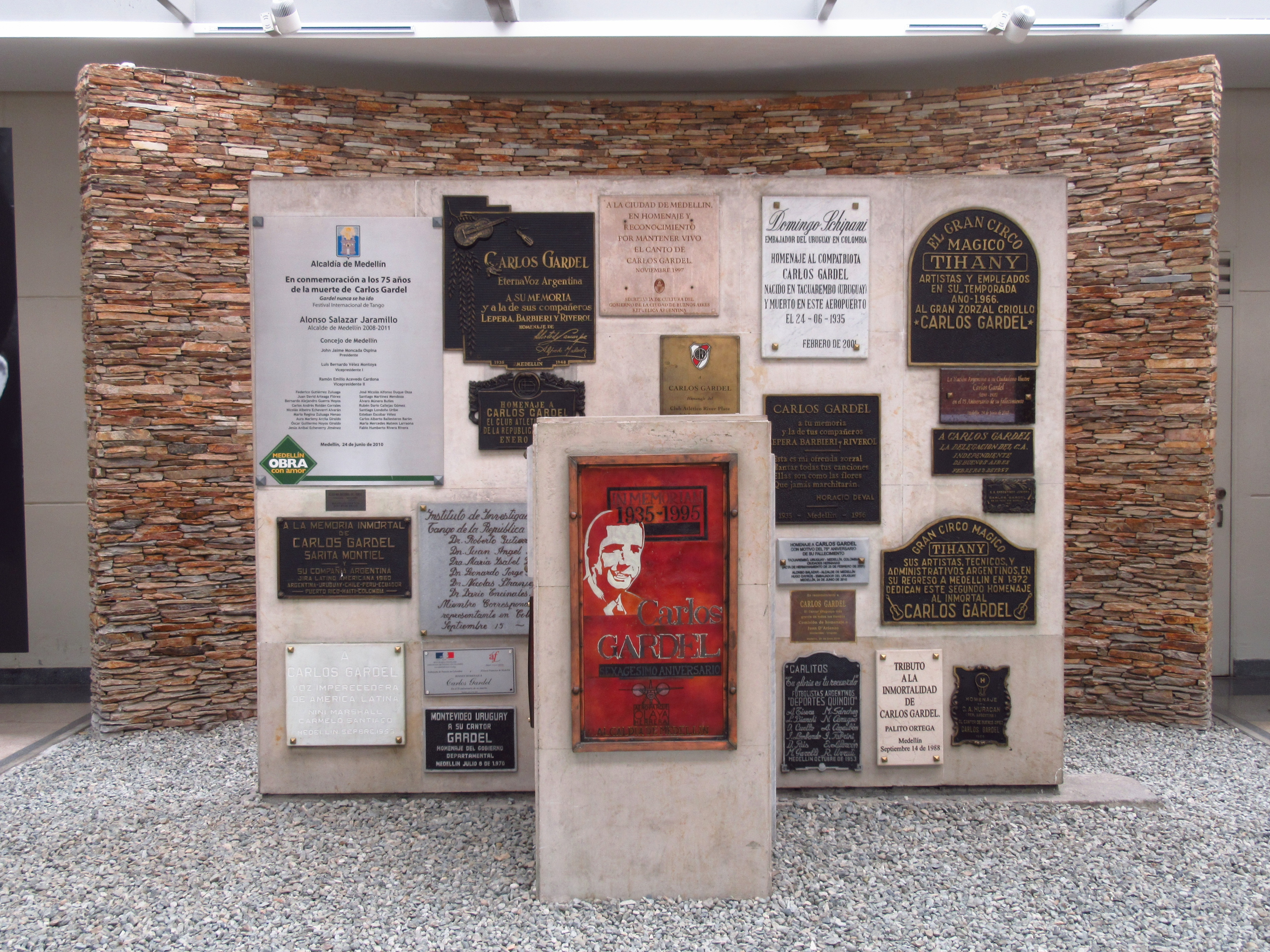 Medellín